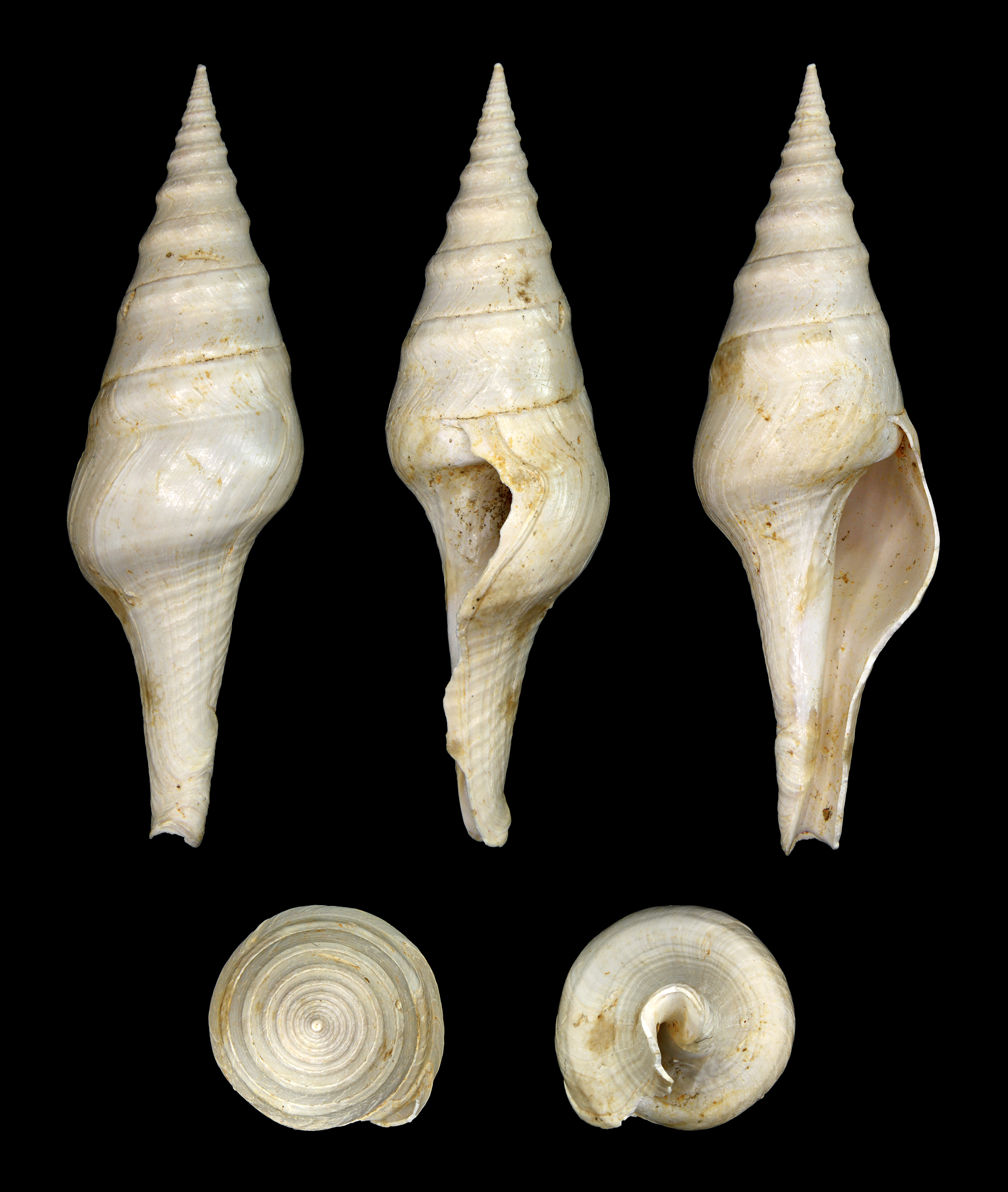 Length 4.0 cm; Origin: Miocene, Burdigalian, Graves near Bordeaux, France; Shell of own collection, therefore not geocoded. Dorsal, lateral (right side), ventral, back, and front view.